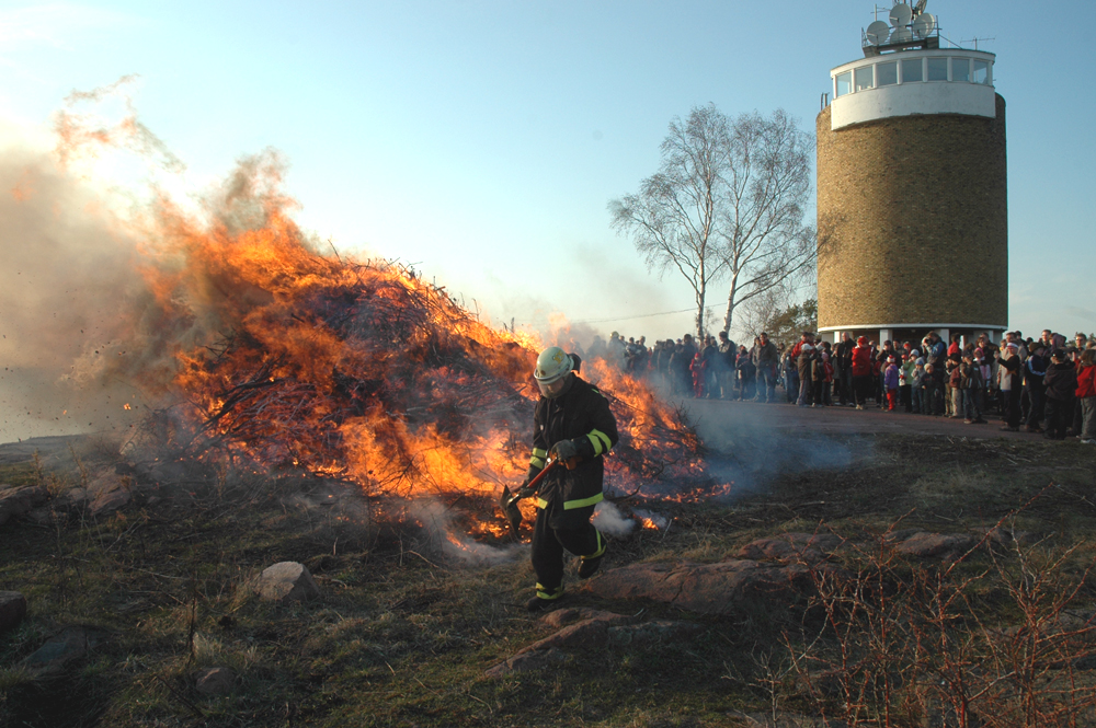 The celebration of Walpurgis Night - Valborg - on April 30, 2006 in Mariehamn, Åland Islands.